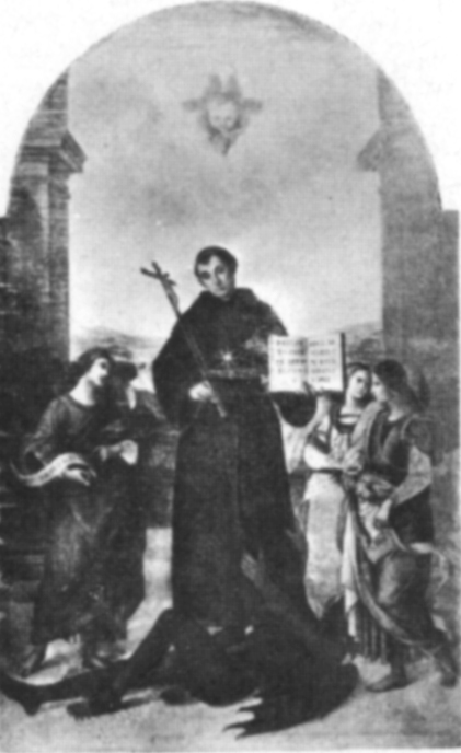 Eighteenth-century copy of the Baronci altarpiece